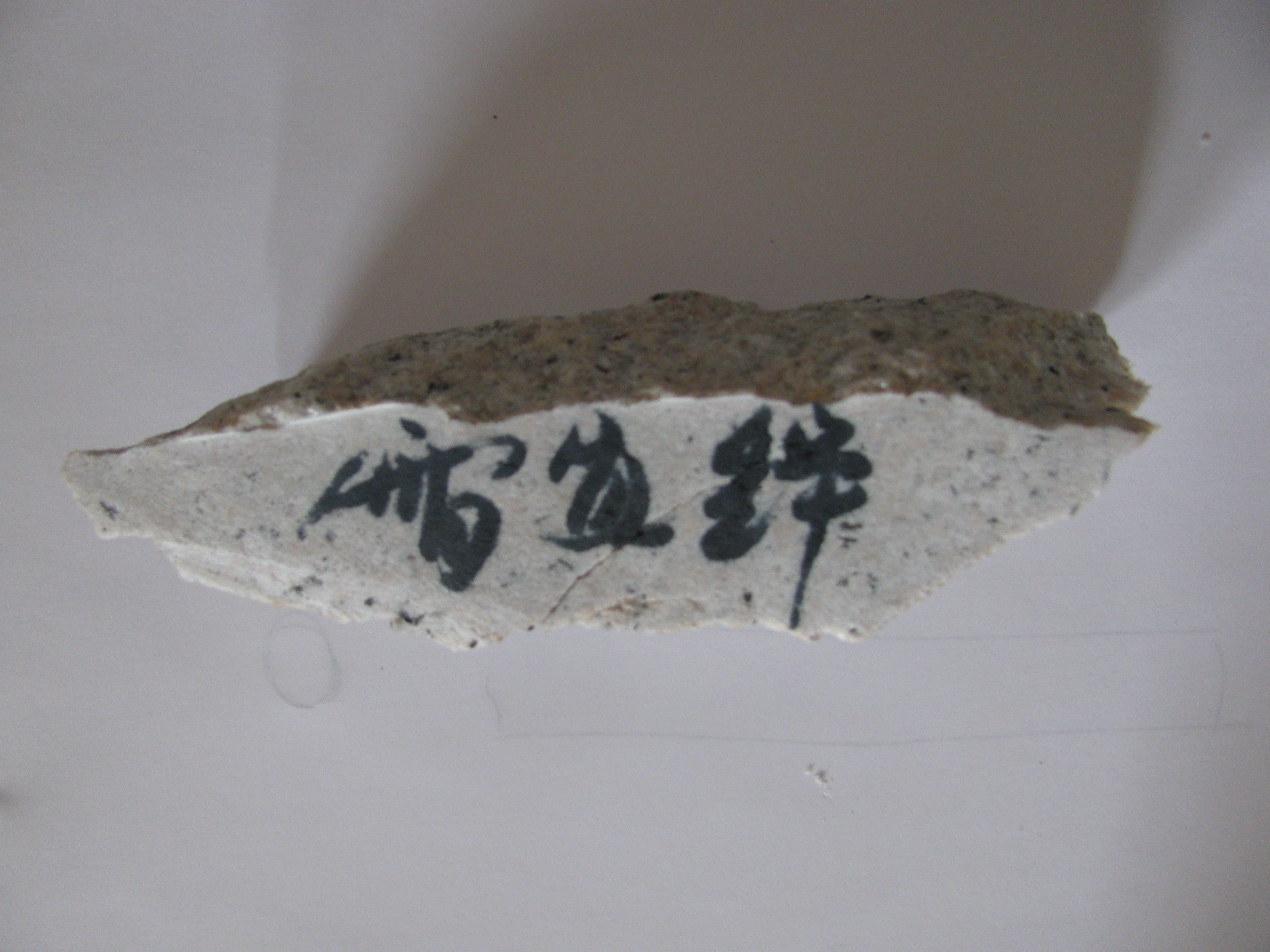 Signature of artist and sculptor, Lei Yixin, on granite from MLK memorial in Washington, DC.